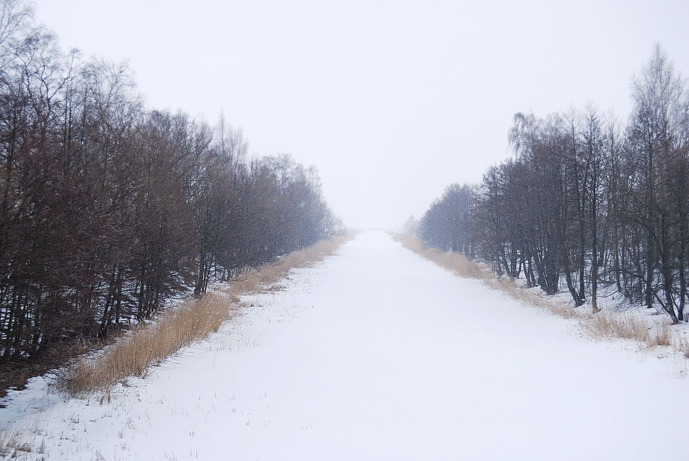 Wilhelm Canal (or Klaipeda canal) at winter, Lithuania.